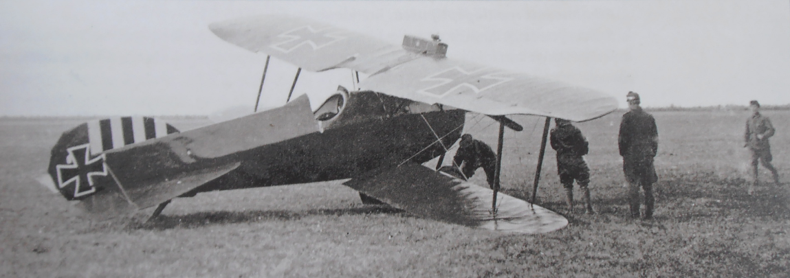 Albatros D.III airplane with colors of Austro-Hungarian Squad No 63 (Jagdflieger-Kompanie 63, Flik 63J)